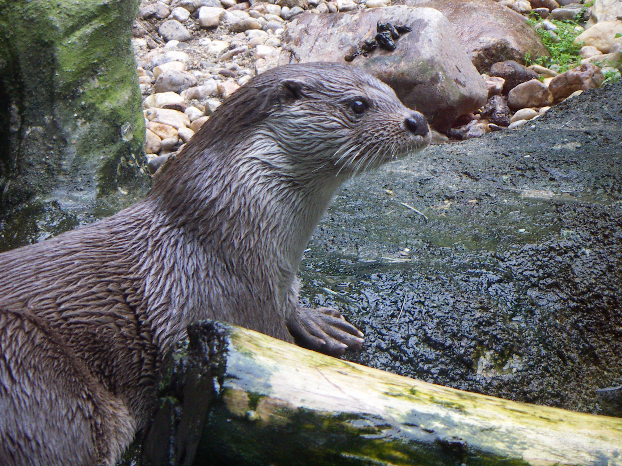 European Otter at Zoo Ohrada, Hluboká nad Vltavou, Czech Republic